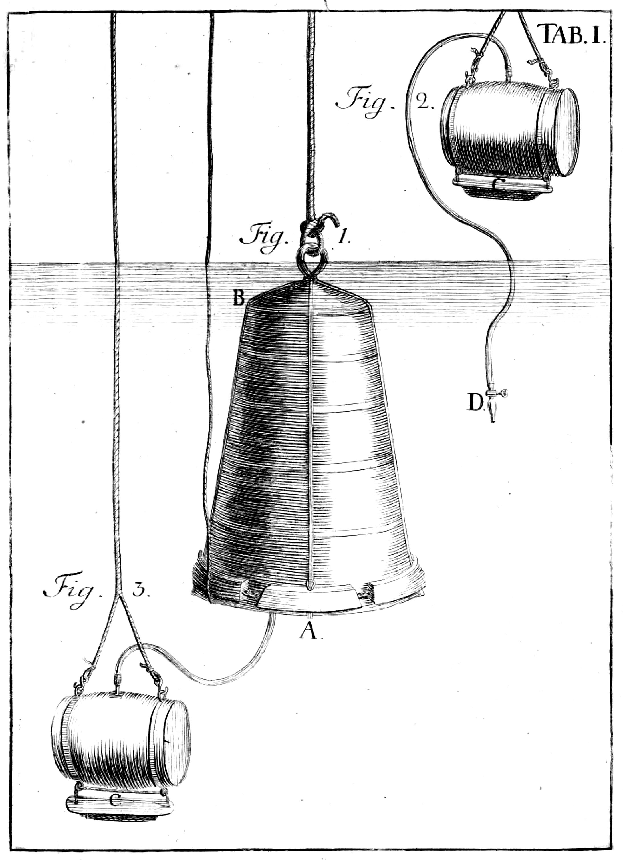 Mårten Triewald's first Diving bell